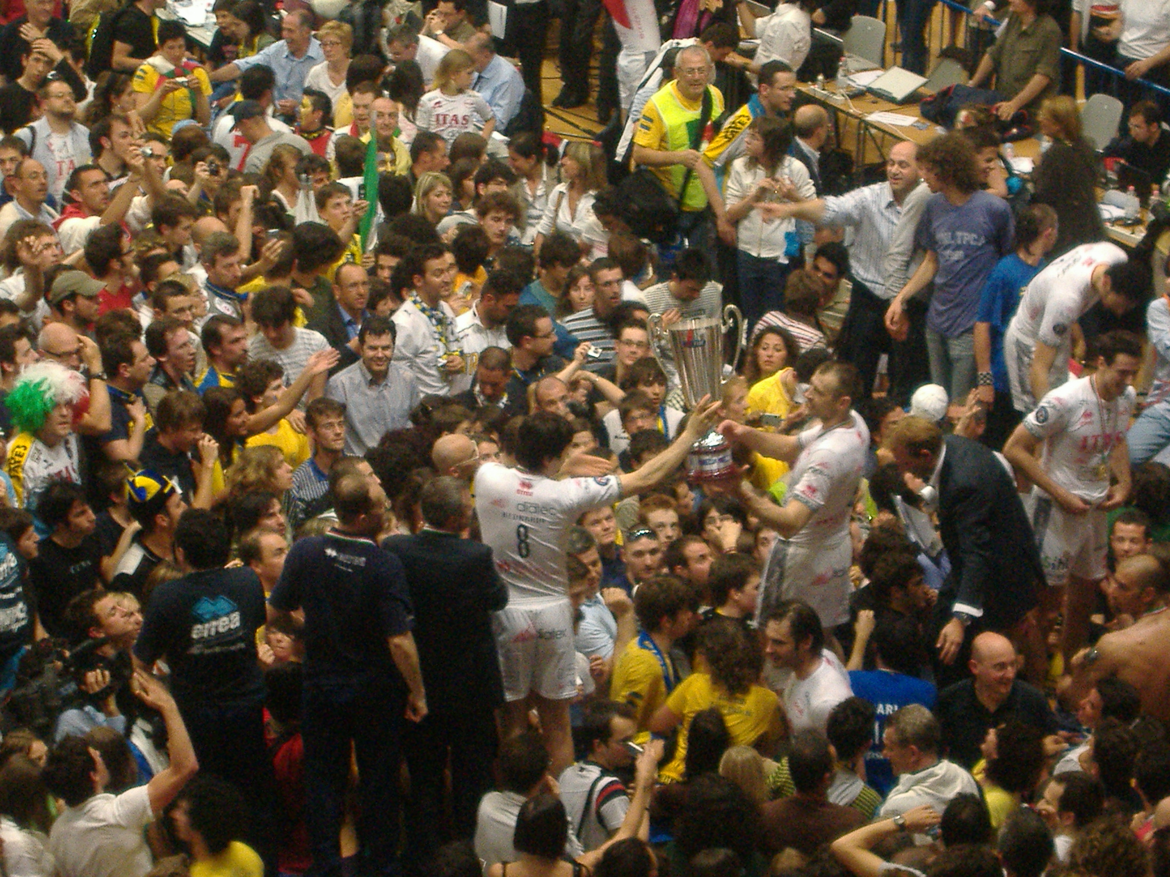 PalaTrento after the end of Match-3